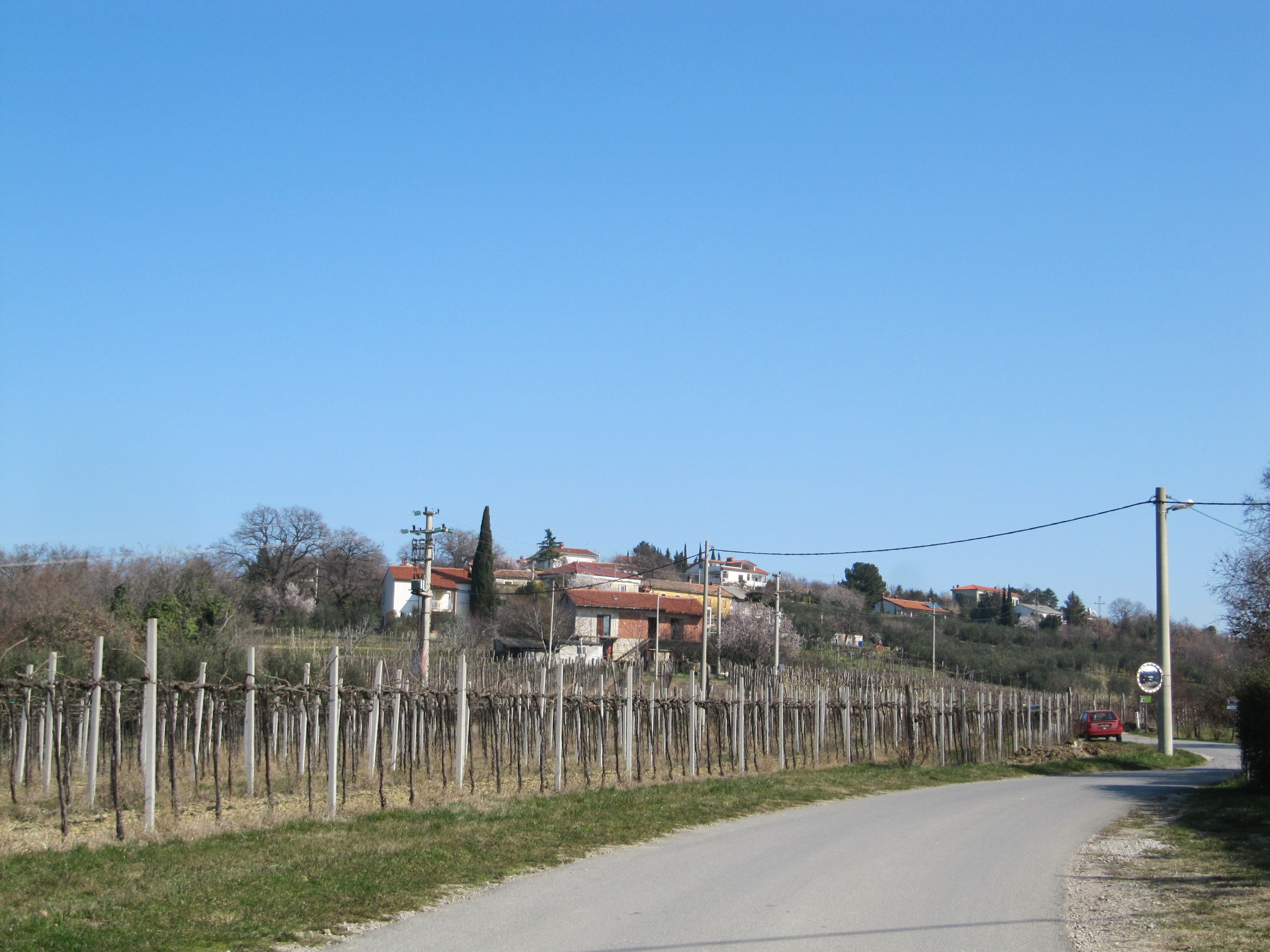 Barizoni, Village in Slovenia